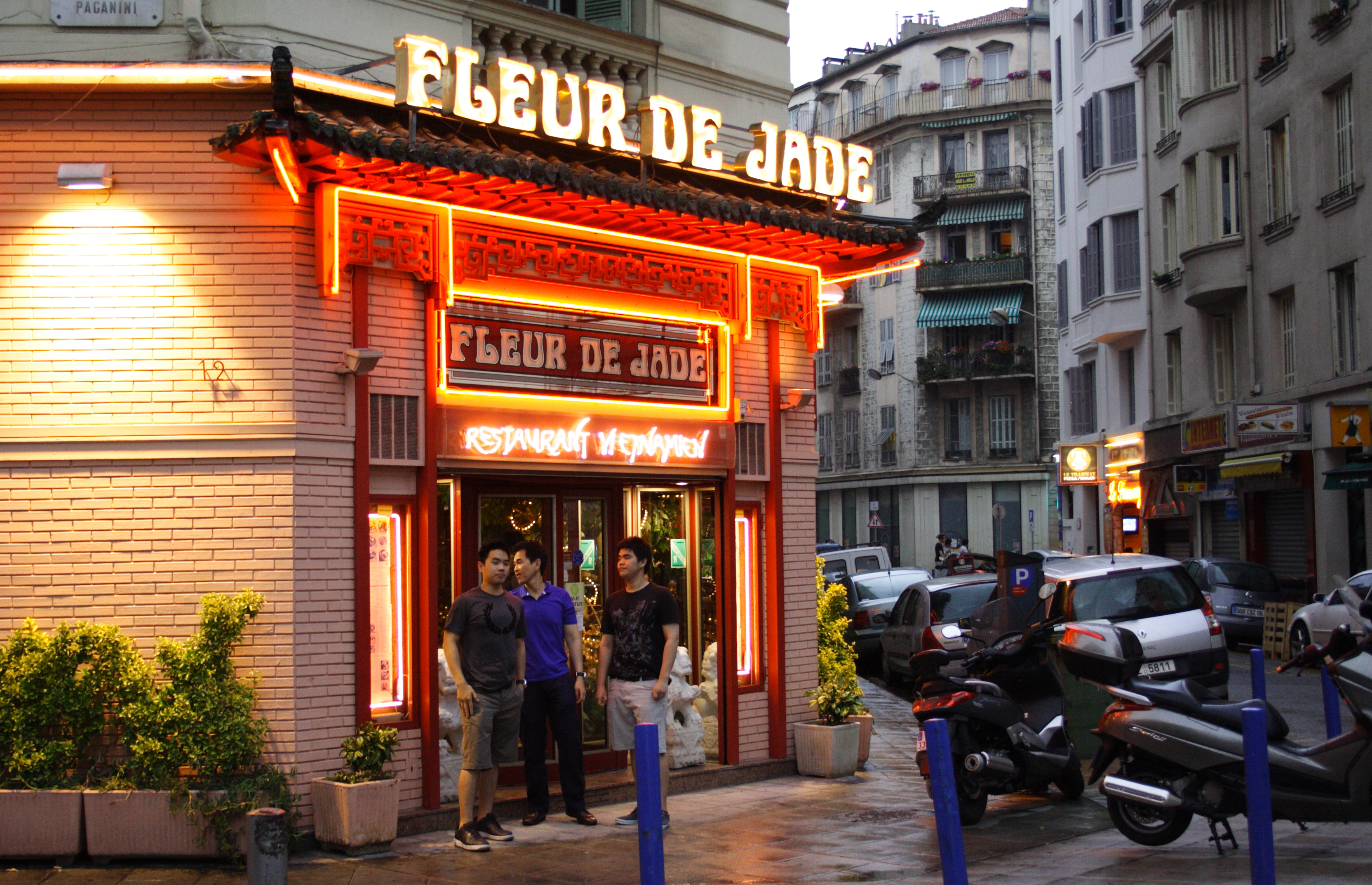 Nice residents of Vietnamese descent stand in front of one of the many Vietnamese restaurants of the city.